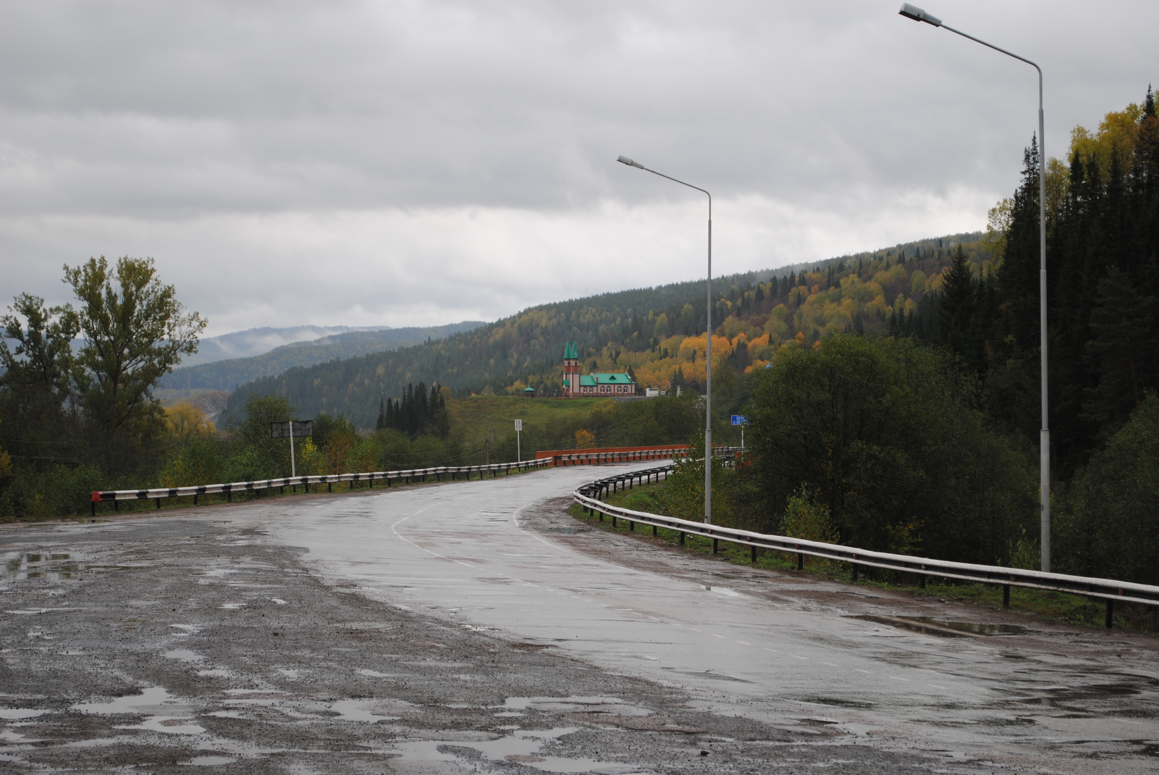 Usmangali Mosque